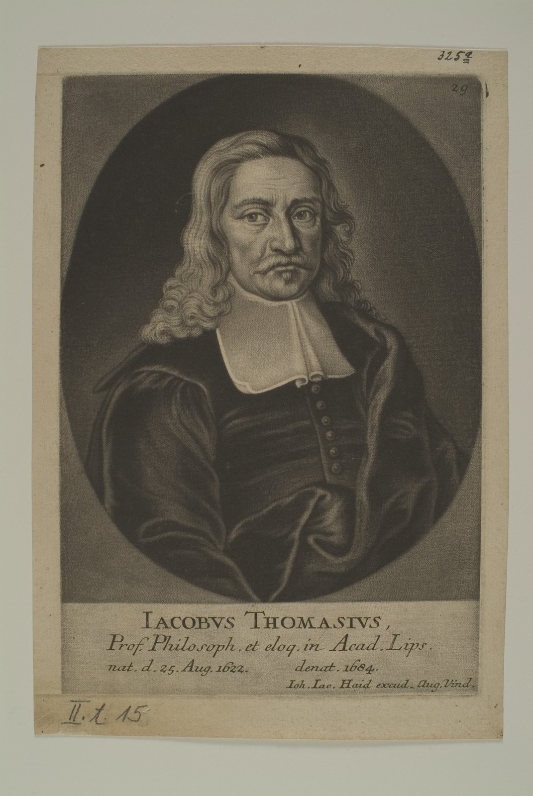 Jakob Thomasius (1622–1684)